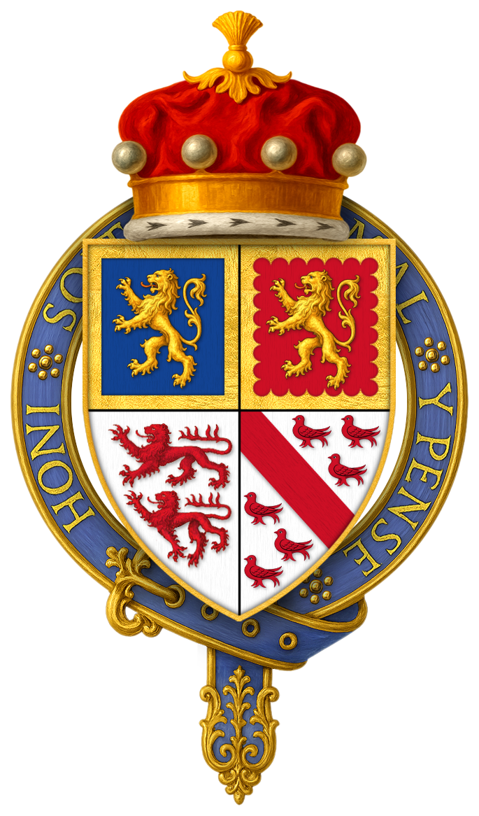 Sir John Talbot, 7th Baron Talbot, KG FOSTER, Joseph, Some Feudal Coats of Arms from Heraldic Rolls 1298-1418, London: James Parker & Co., 1902. “ Talbot, Sir Gilbert (of co. Glouc.) -- bore, at the first Dunstable tournament 1308,... gules a lyon rampant within a bordure engrailed or (F.) being the bardie arms of Rhys, Prince of South Wales... Gilbert, K.G. (5th lord), bore at the siege of Rouen 1418, Rhys, quarterly with Strange, argent, two lyons passant in pale gules; they are also ascribed Richard, in the Surrey Roll (R. 11). ”